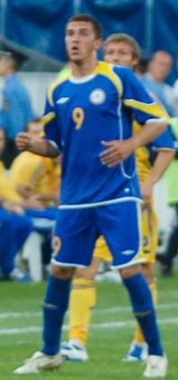 Sergei Khizhnichenko in Kazakhstan national football team